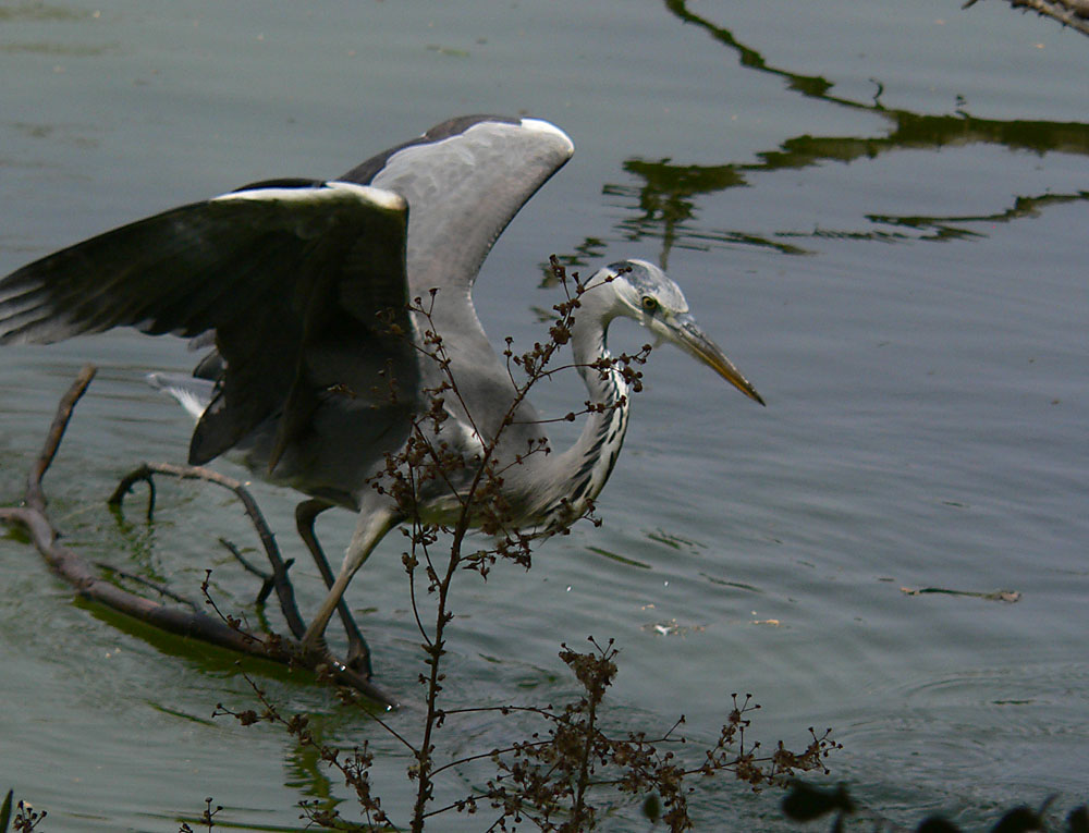 Grey heron, Ardea cinerea, ready to attack fish. Photo taken in Bandia Nature Park, Senegal.